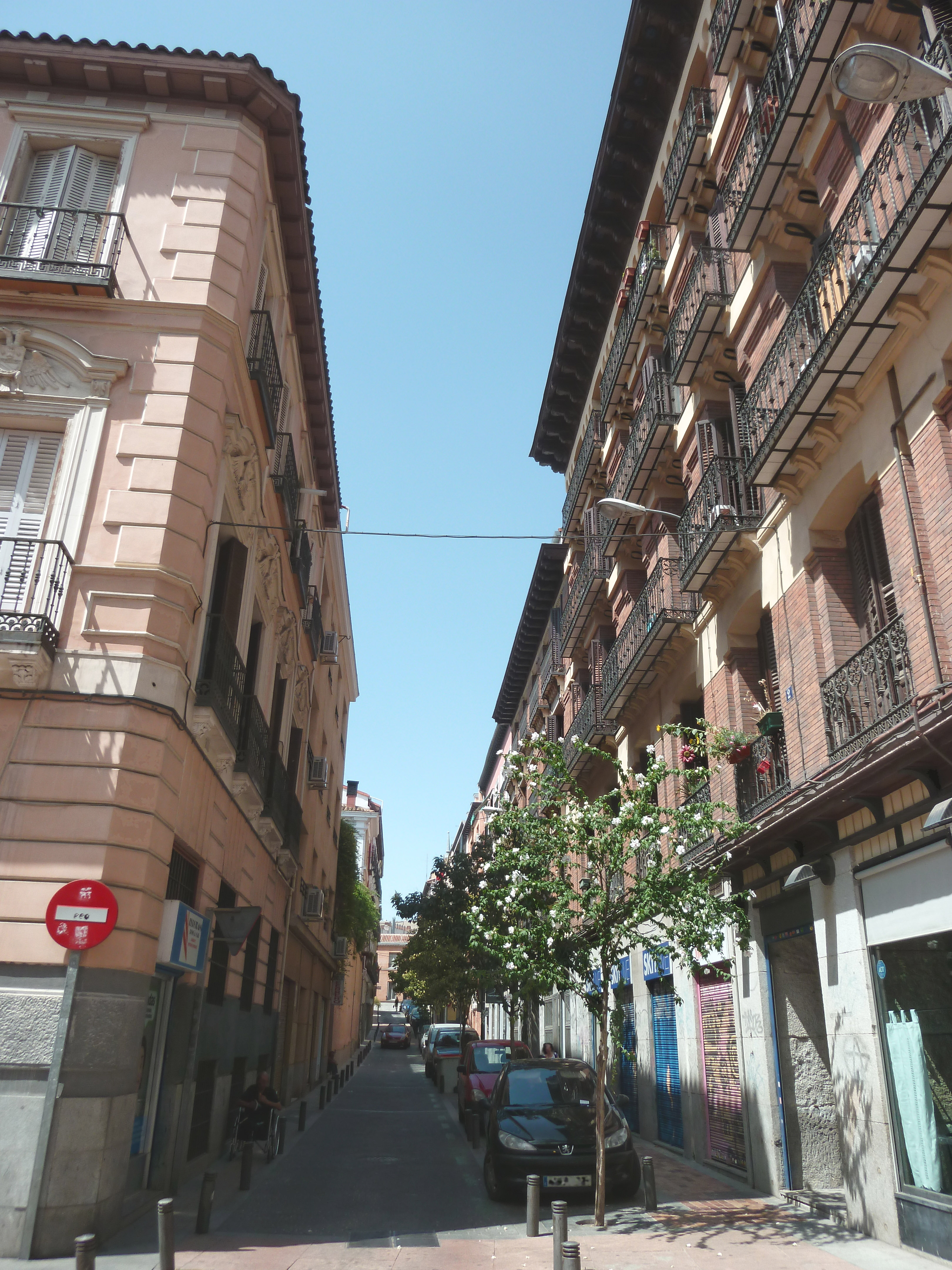 View from Calle de las Pozas (street) in Centro district in Madrid (Spain).